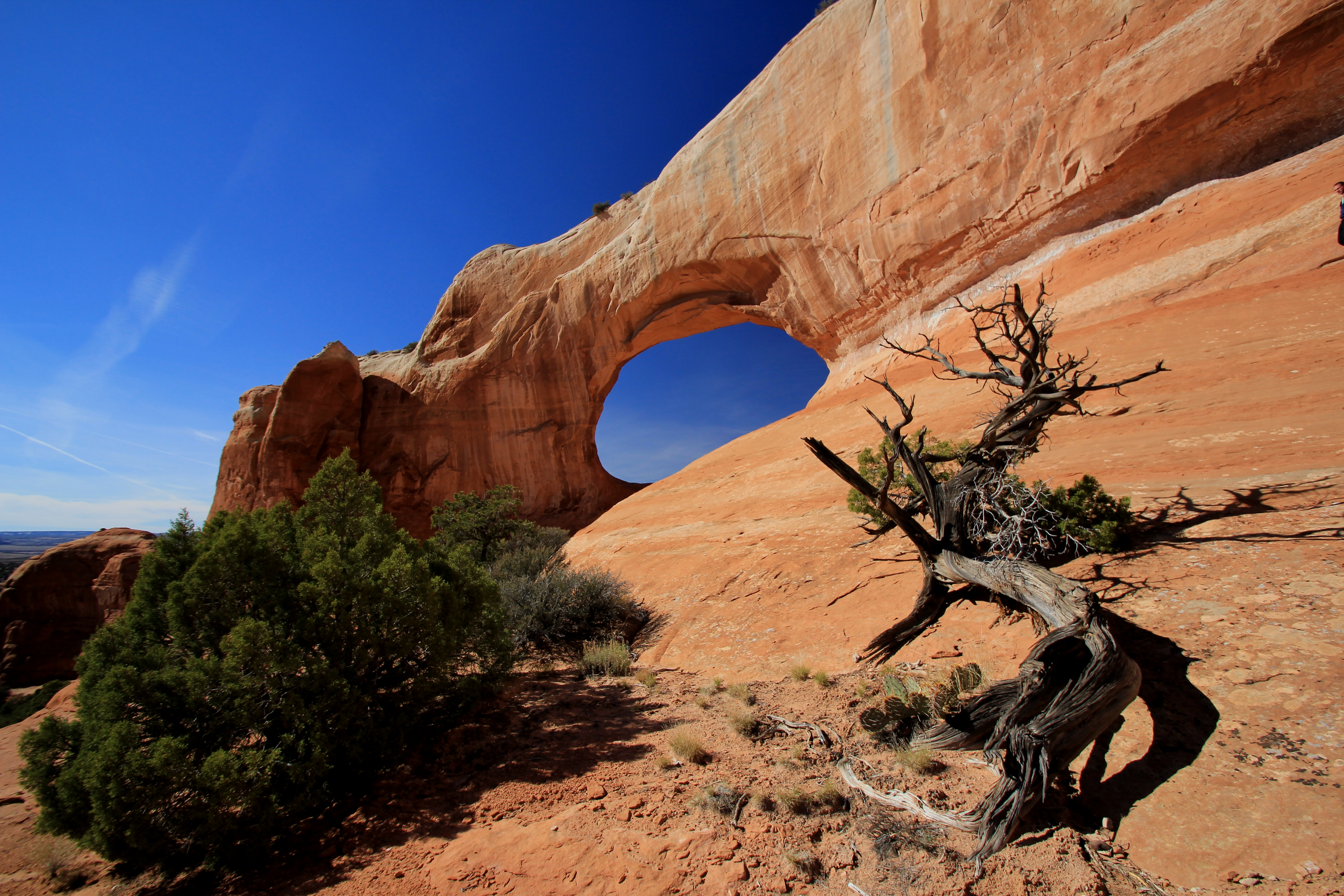 Wilson Arch as seen from the East